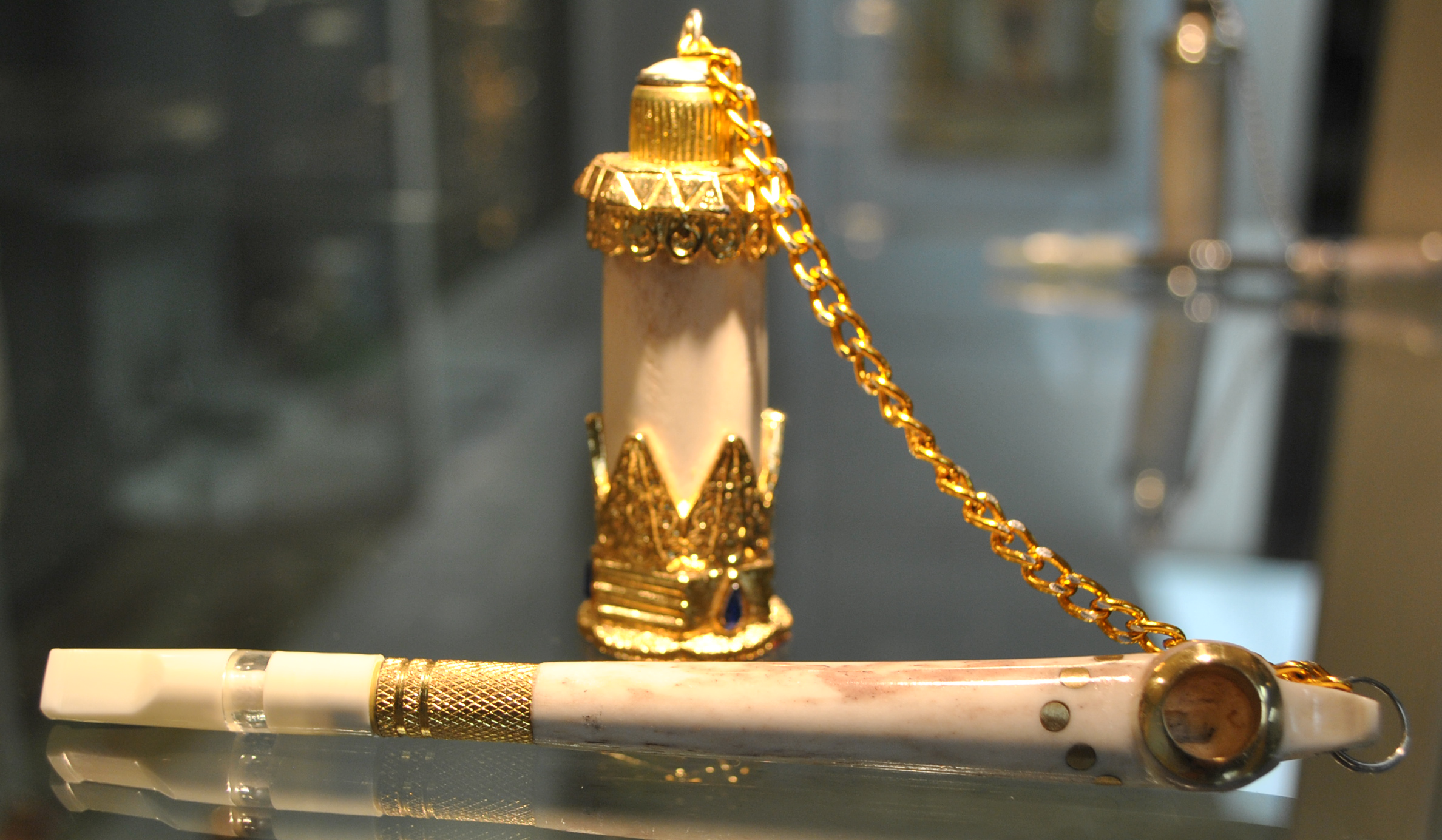 Rare Hand Carved Stone Medwakh Pipe with gold accents and an ornamental Chanta.